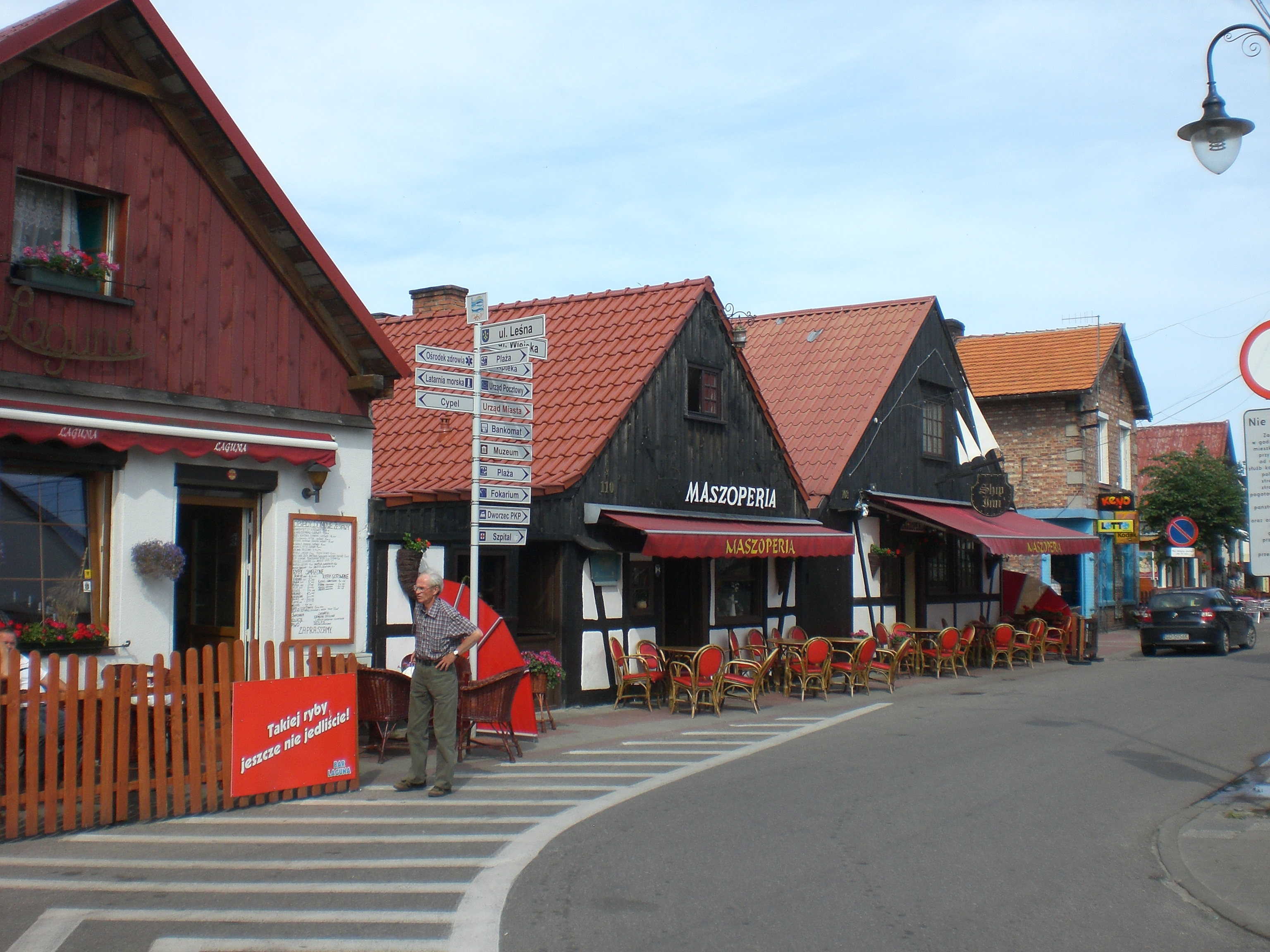 Old Town in Hel, Poland